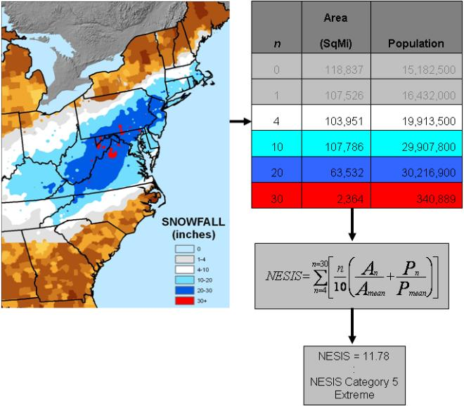 Screenshot of a series of charts used to describe the Northeast Snowfall Impact Scale.